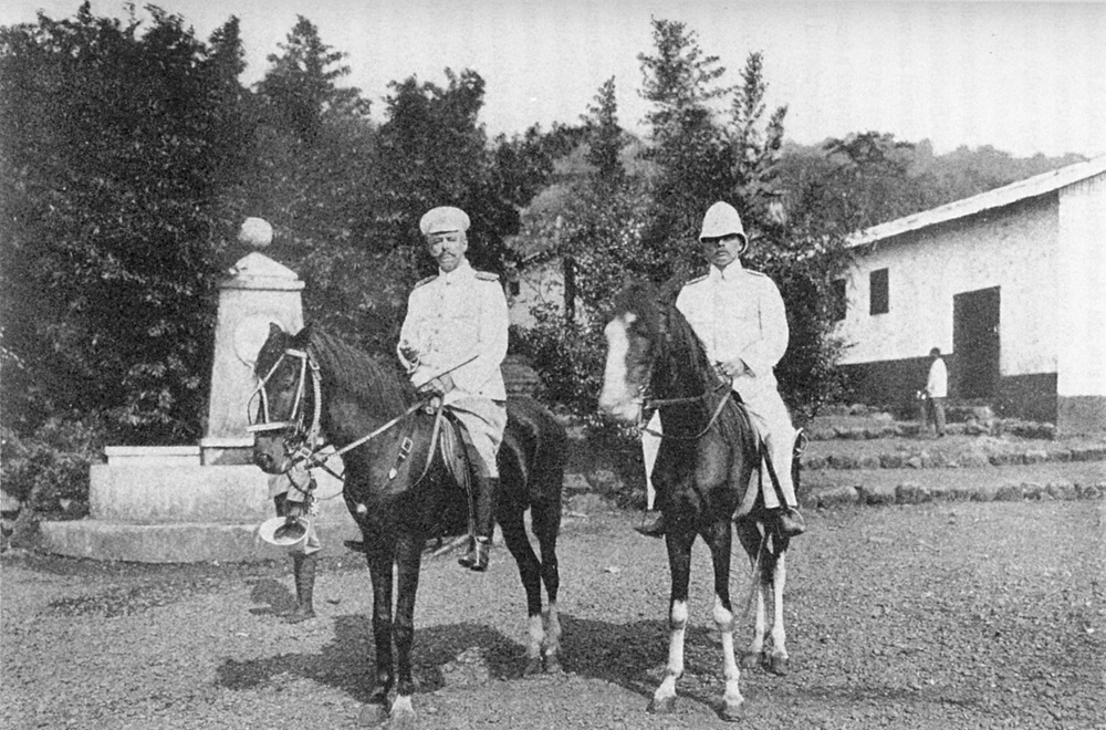 Governor Jesko von Puttkamer (1855-1917) and Officer Hans Dominik (1870-1910) by the Bismarck Fountain in Kamerun.